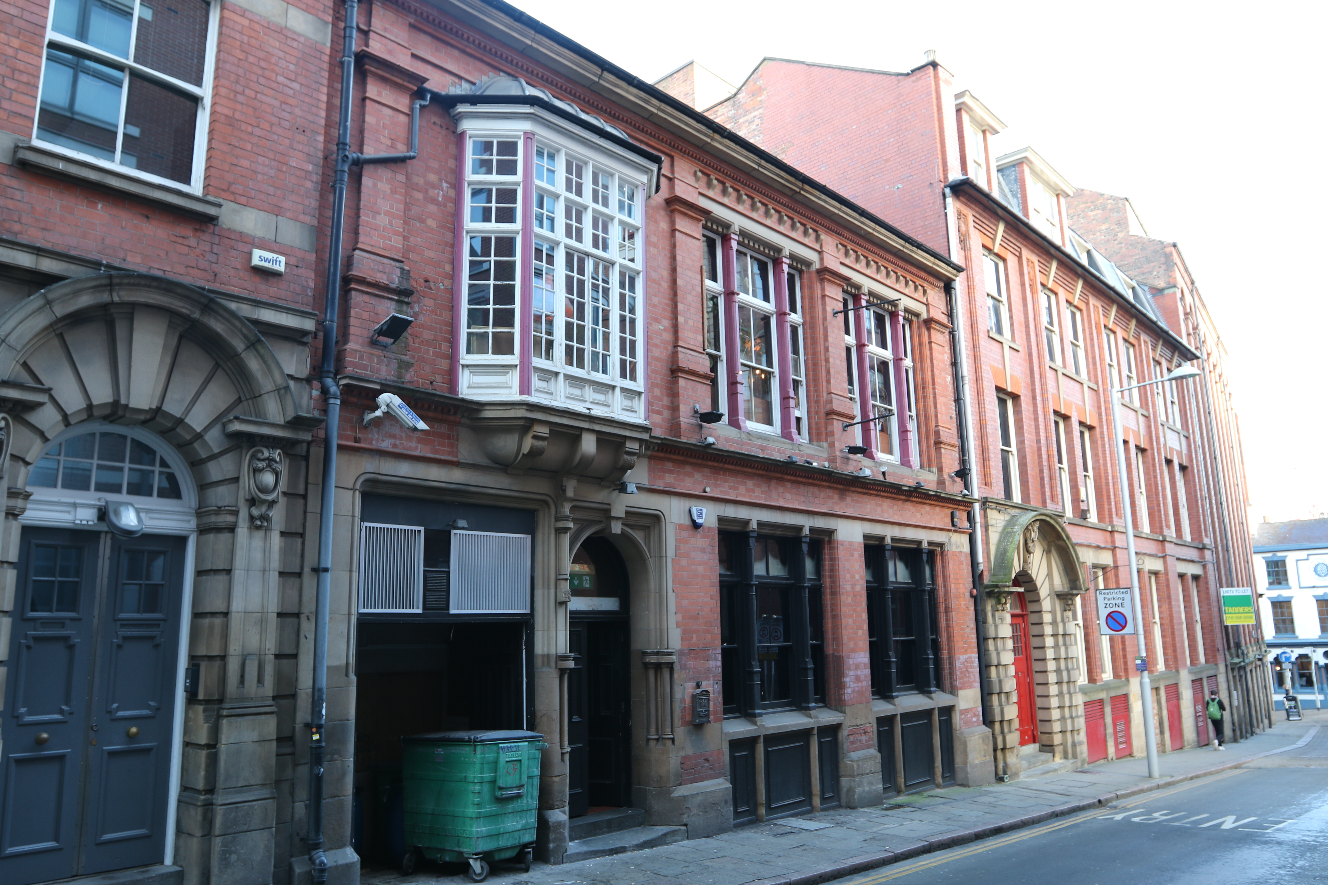 Yarn warehouse and offices, now offices. 1890. By WR & F Booker of Nottingham for G Wigley. Additions 1911 by H Allcock.